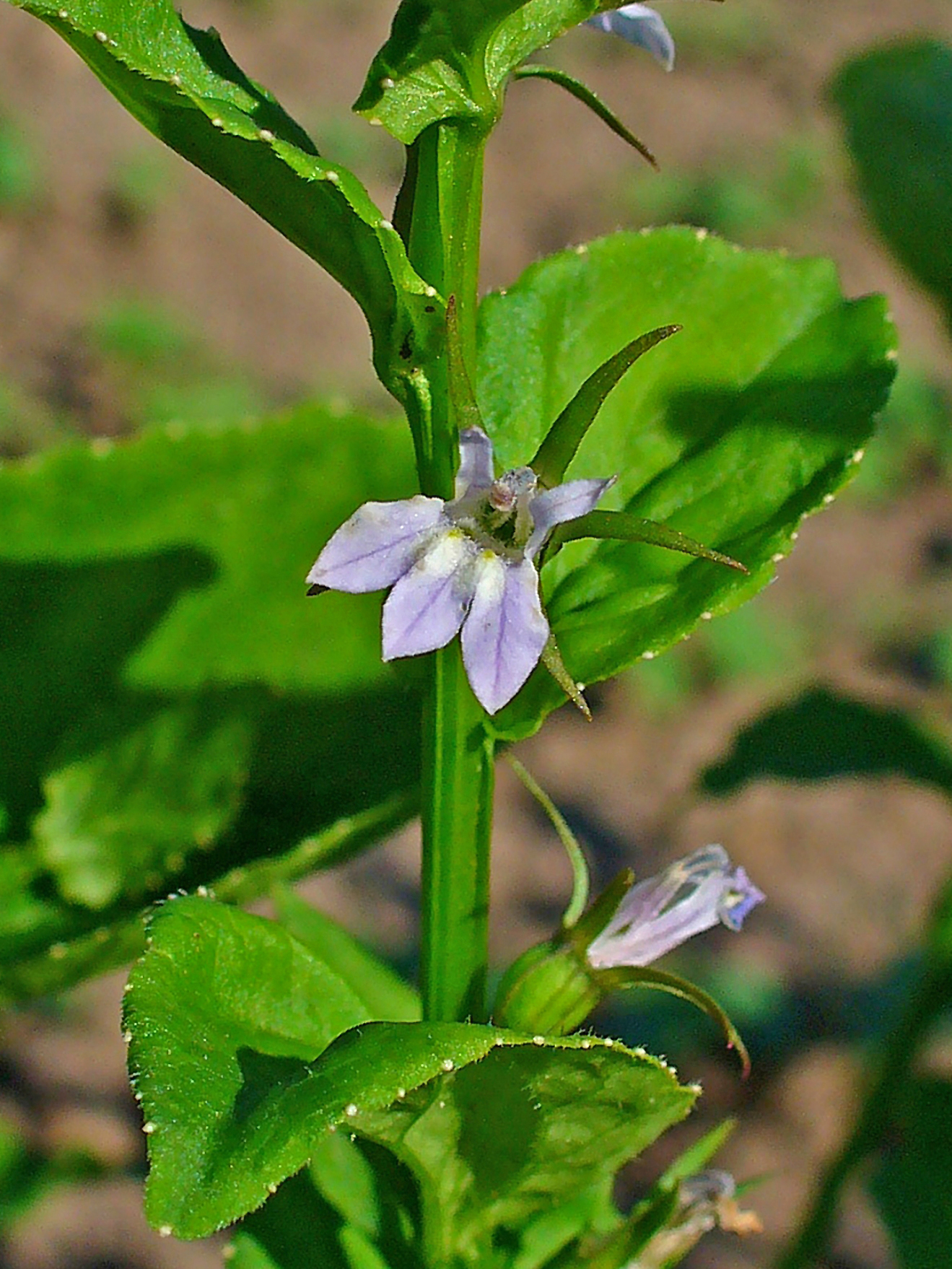 Lobelia inflata, Campanulaceae, Indian Tobacco, flower. The whole, fresh, blooming plant is used in homeopathy as remedy: Lobelia inflata (Lob.)